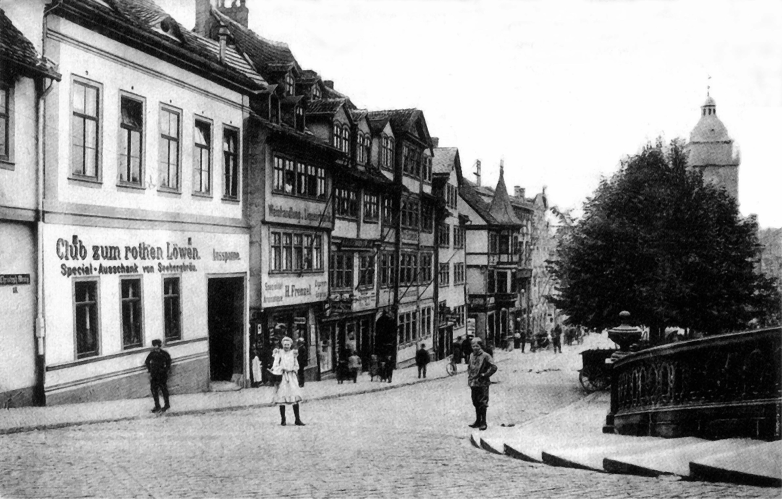 Gotha, Hauptmarkt, "Club zum rothen Löwen" (on the left)